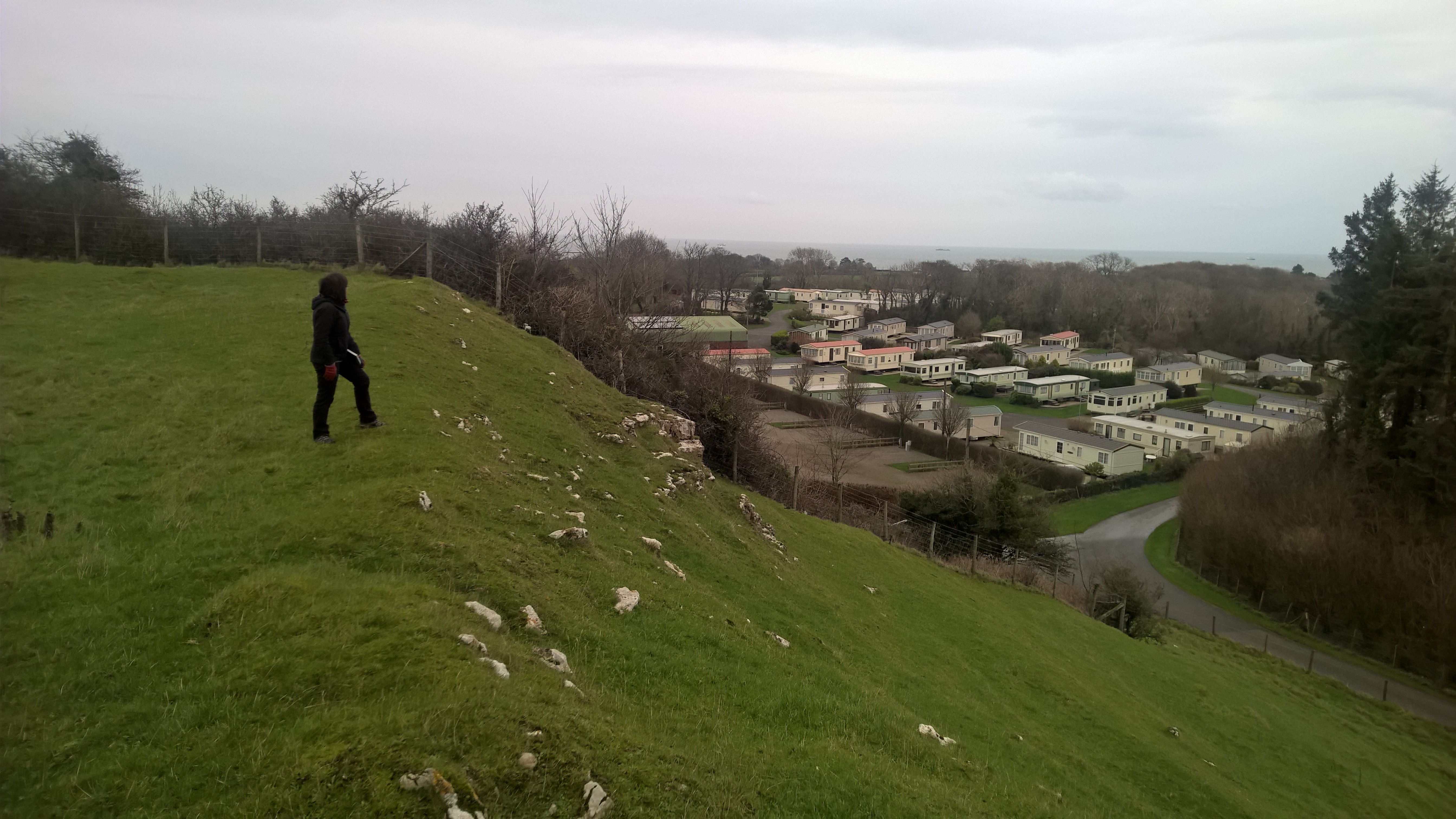 Parciau hill fort ramparts and view north-east over caravan site to the Irish Sea, small adult for scale